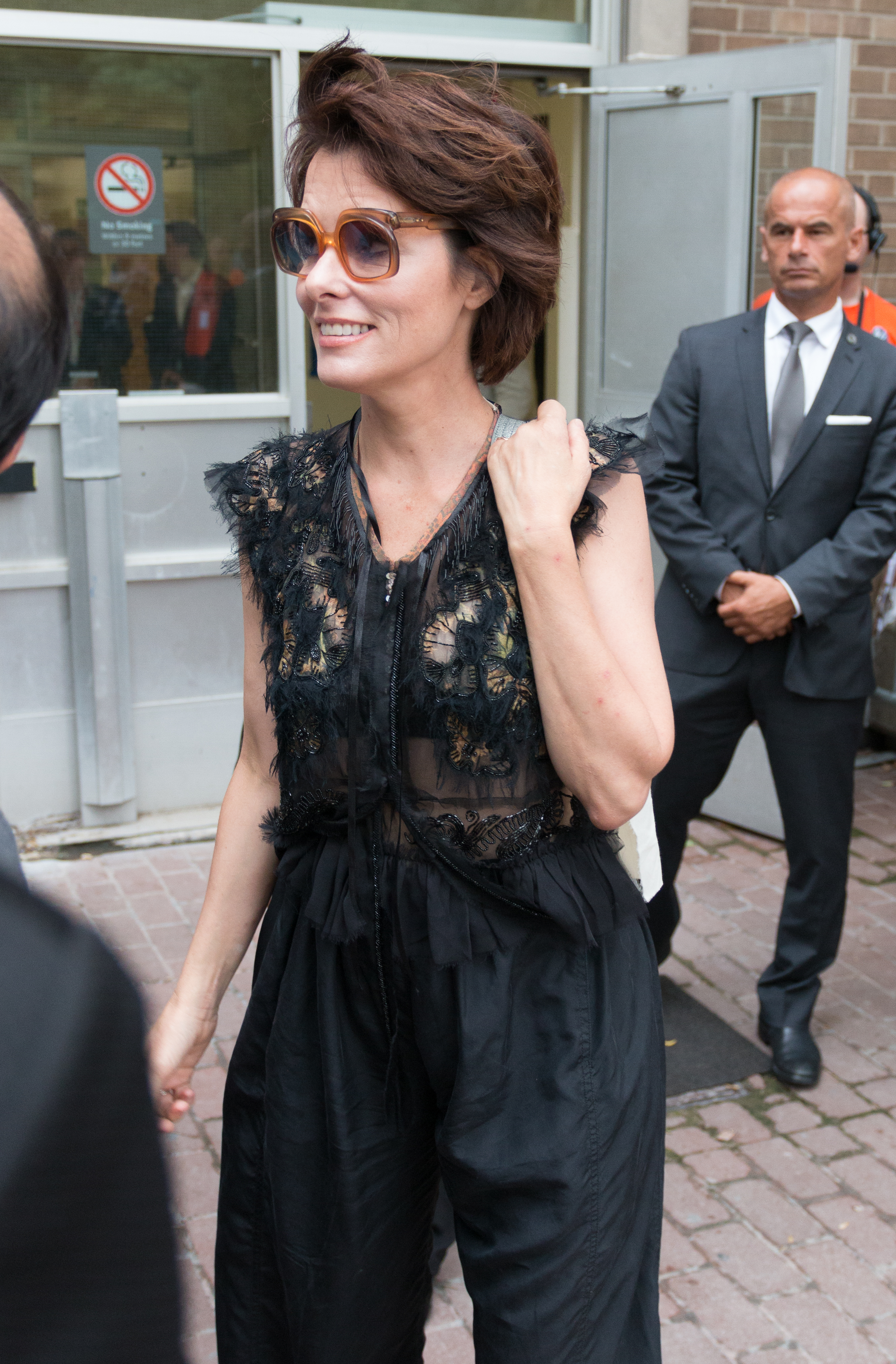 Parker Posey exiting the premiere of the film Mascots at the Toronto International Film Festival